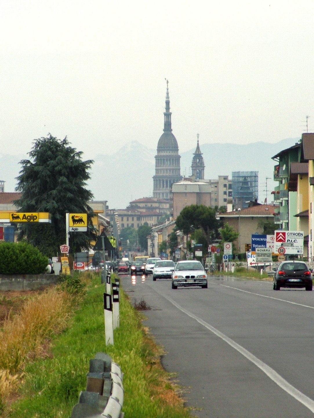 Novara, Piedmont, Italy - State road 11 (SS 11) - in the background you can see the dome of saint Gaudenzio church *